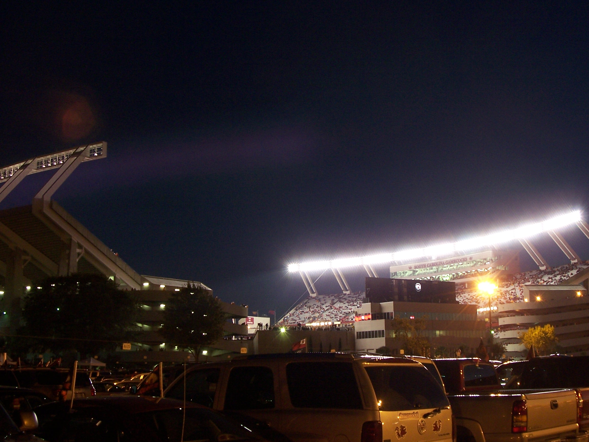 I took this picture from outside Williams-Brice Stadium on Oct. 28, 2006, before South Carolina's game against Tennessee.